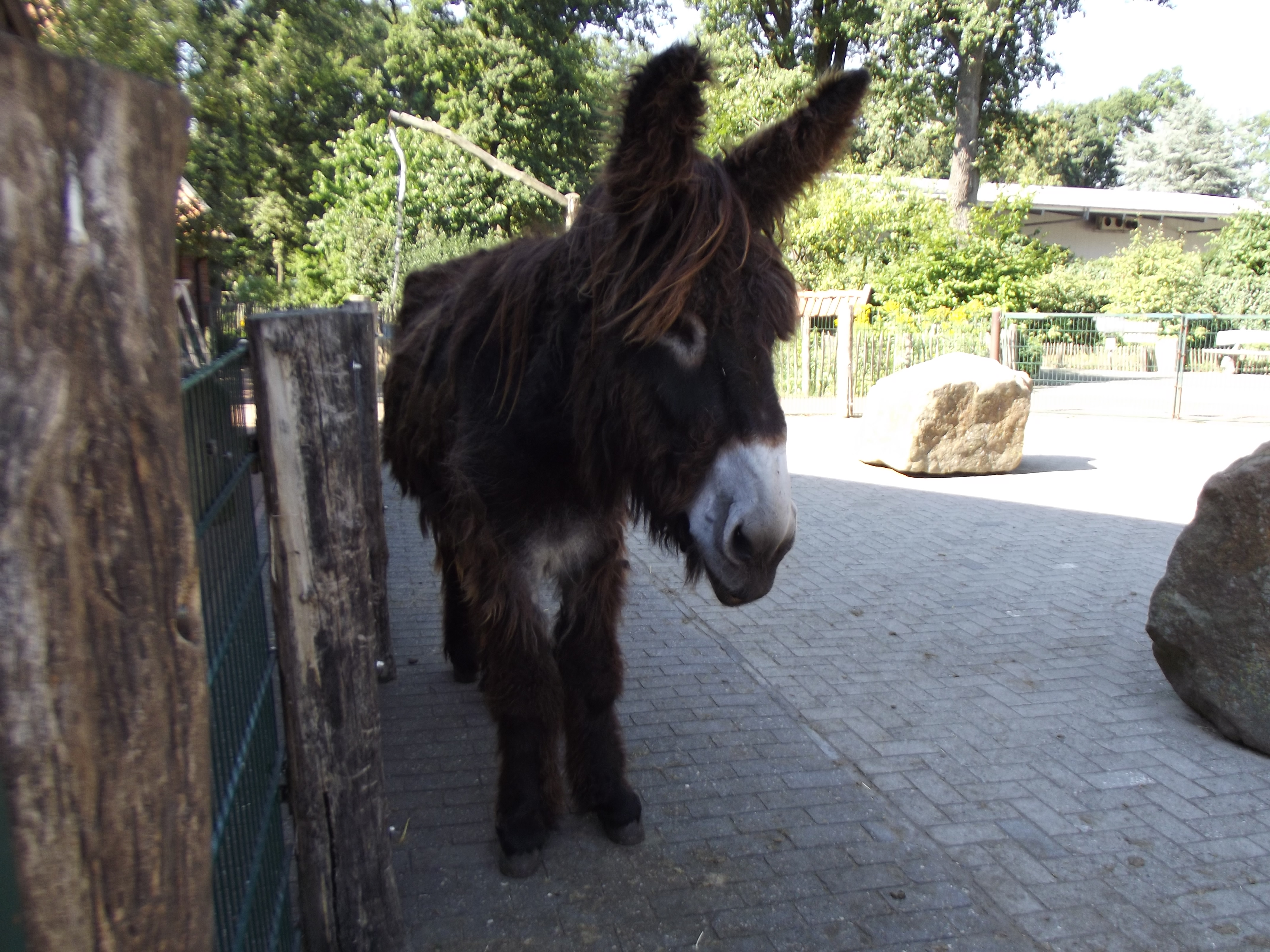 A very trusting donkey living on a farm which has been rebuilt as a museum on the premises of the little zoo of my hometown